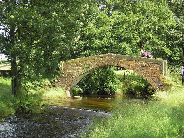 Long Bridge. A grade II listed packhorse bridge on Oldfield Lane. The stone is unusually red for the area. Since the previous photograph the nearby trees have grown considerably.